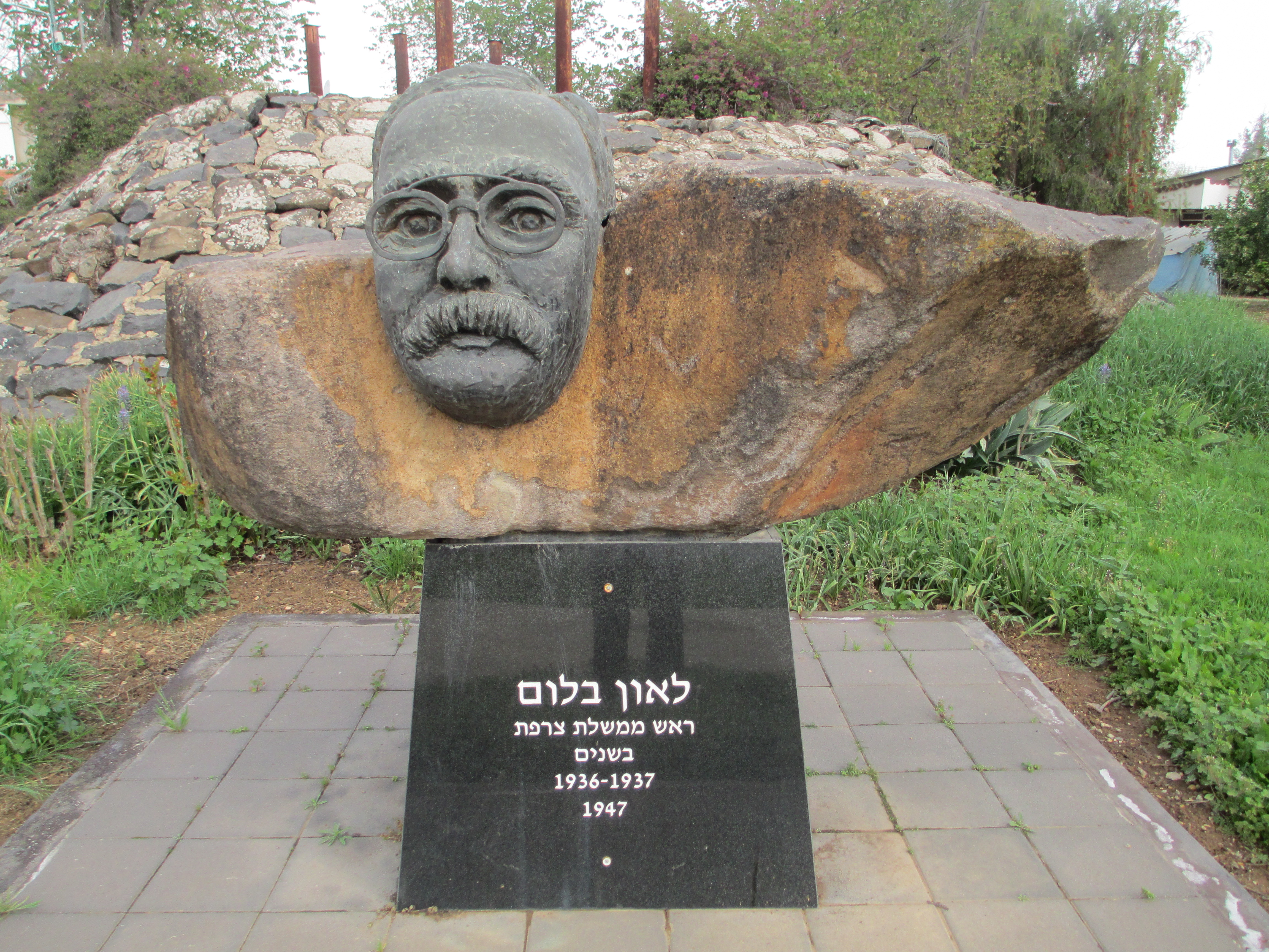 Leon Blum memorial in Kibbutz Kfar Blum